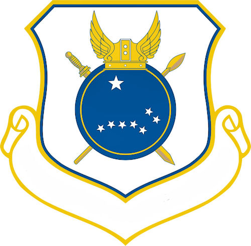 Emblem of the 440th Airlift Wing (may be used by 440th Operations Group with group designation on the scroll) (USAFR)